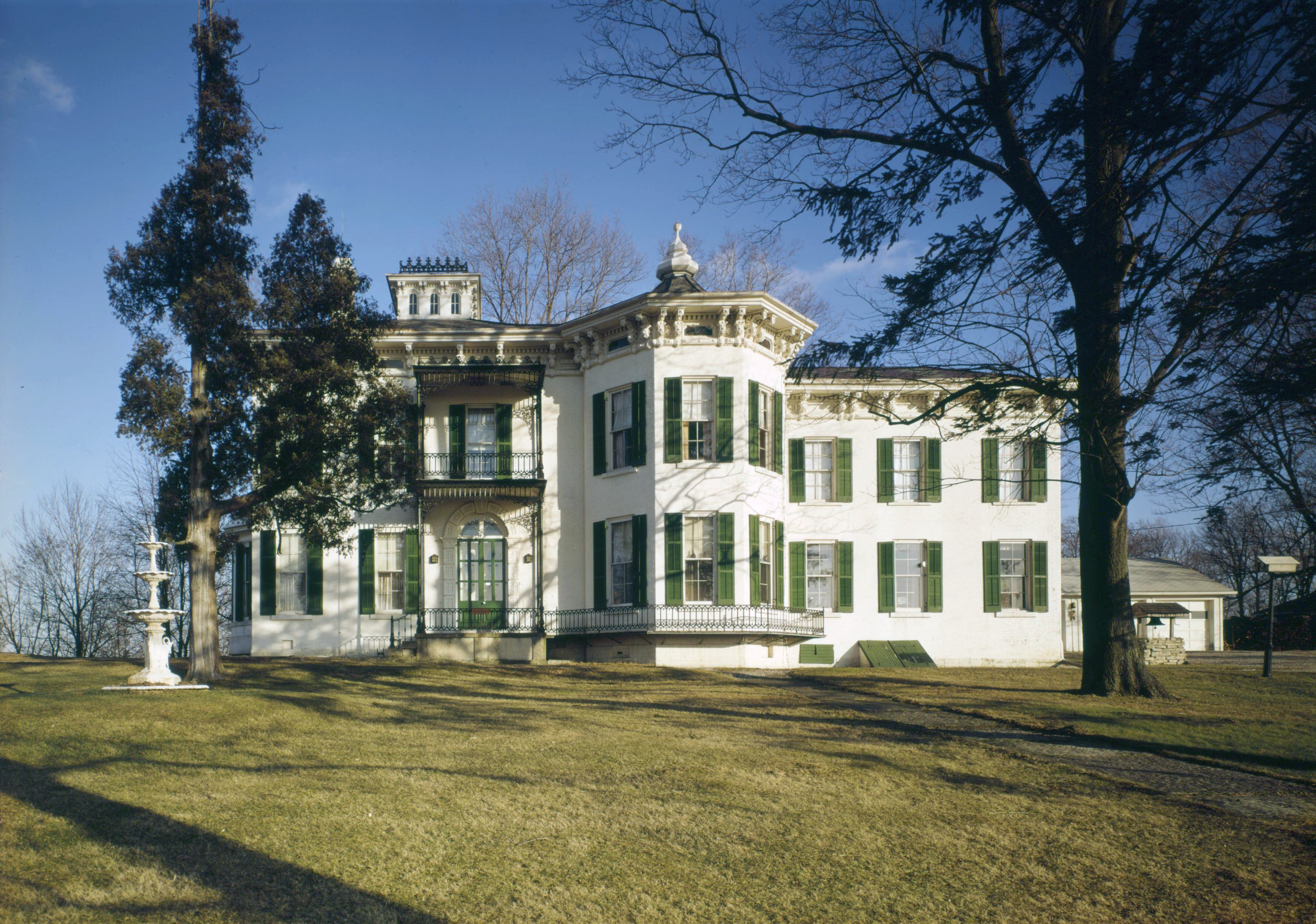 Front of Beechwood, located along Sarver Road 2 miles south of Milton in Wayne County, Indiana, United States. Built in 1871, the house and six related buildings are listed together on the National Register of Historic Places.